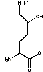 A common sidechain-hydroxylated form of lysine. Made by me on 28 January 2007, and released under the GFDL.